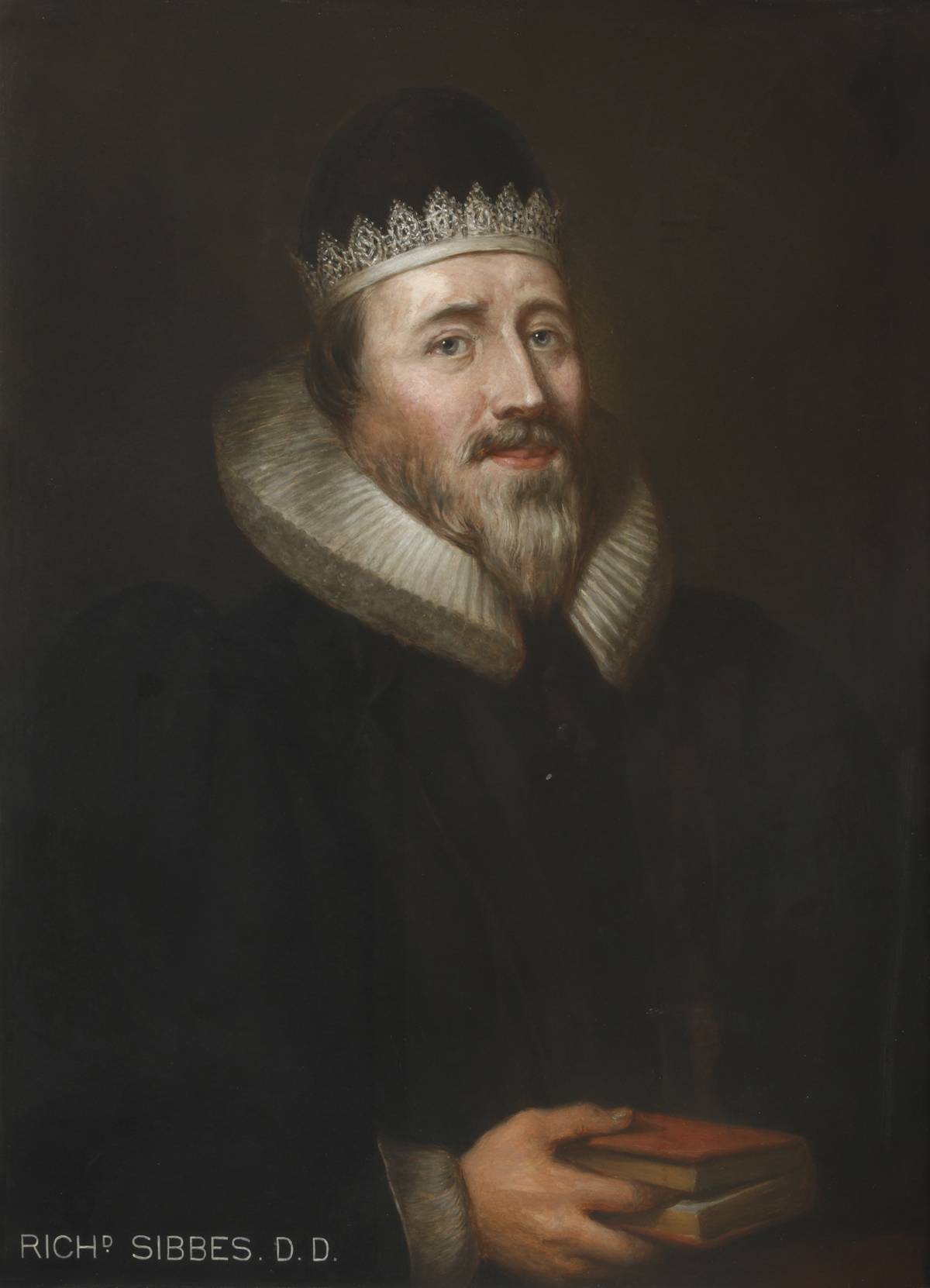 Depicted person: Richard Sibbes (1577-1635)